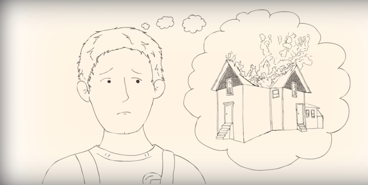 PTSD (Posttraumatic stress disorder) avoidance